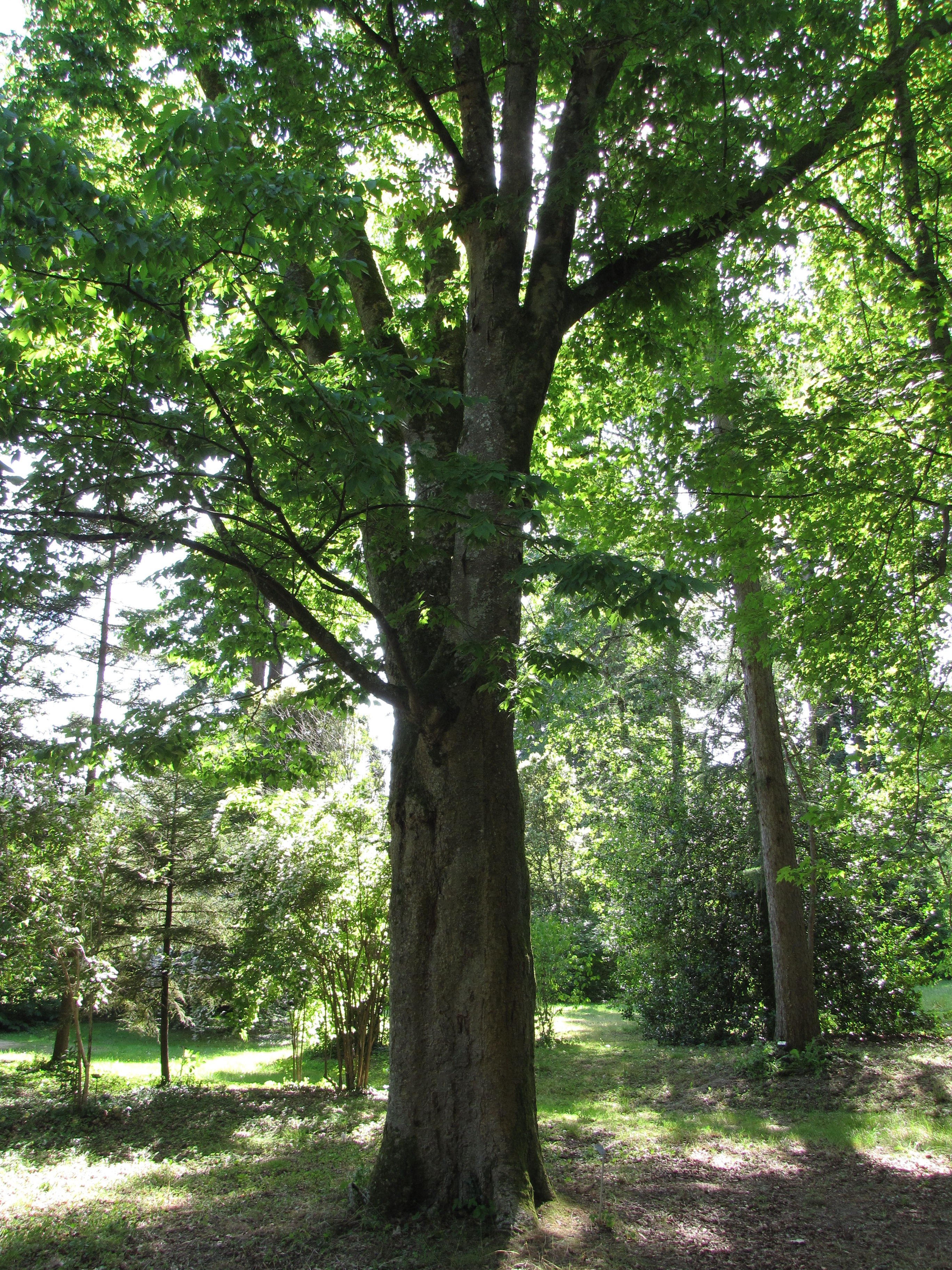 Arboretum National des Barres, Nogent-sur-Vernisson, Loiret, France. Zelkova serrata Makino. A.k.a. Japanese zelkova, Japanese elm or keyaki. Planted in 1894 (19th cent.)